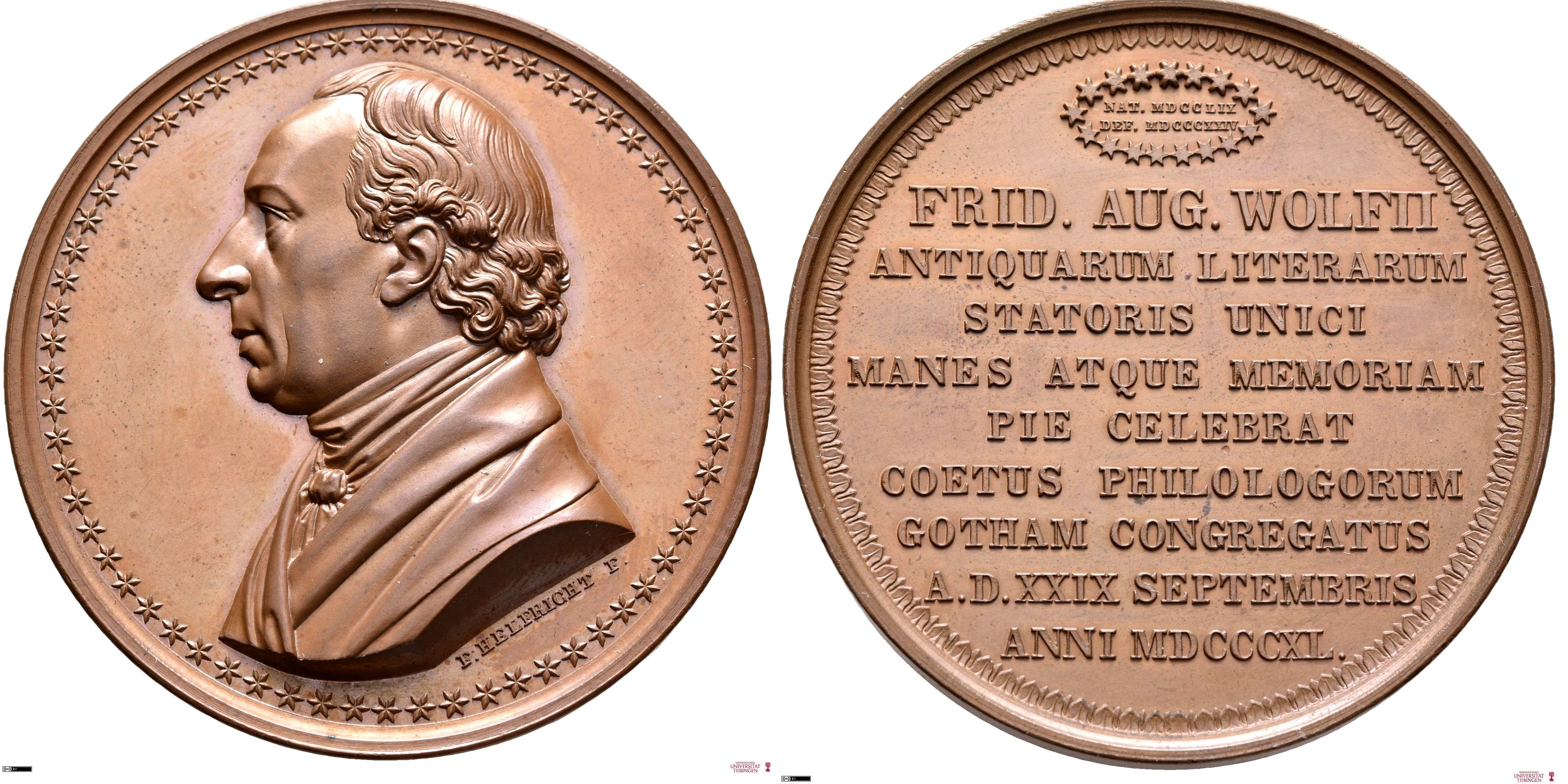 The front side depicts a bust of Wolf surrounded by stars. The engraver Ferdiand Helfricht signed below the bust. The back side consists of a Latin dedication to the late Wolf. In the bottom of said text the occasion for strucking this medal is named as the convention of German philologists when it was held 1840 in Gotha. Above the dedication his date of birth and death are given enclosed by stars.